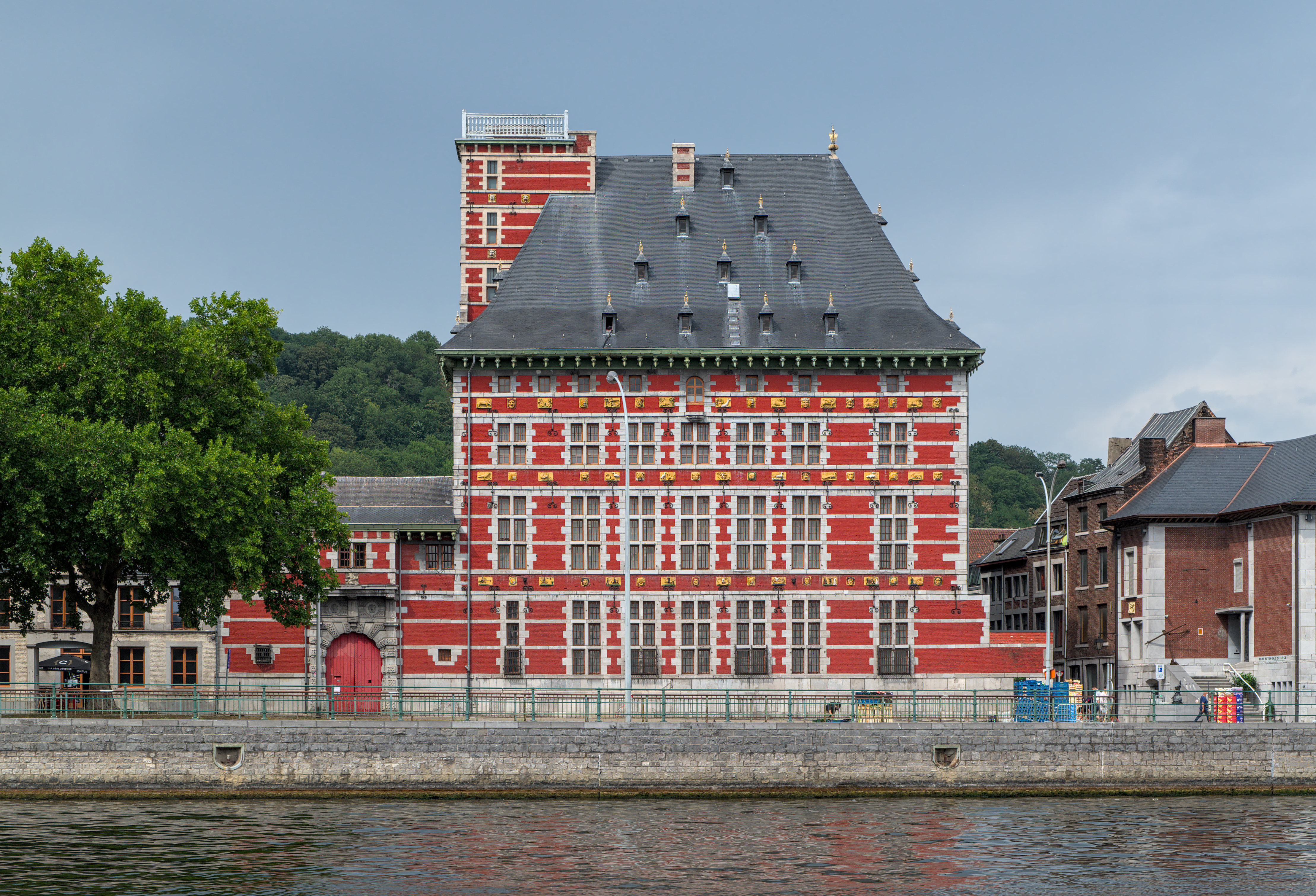 The Curtius Museum seen from the Meuse river in Liège, Belgium This photo of immovable heritage has been taken in the Walloon Region